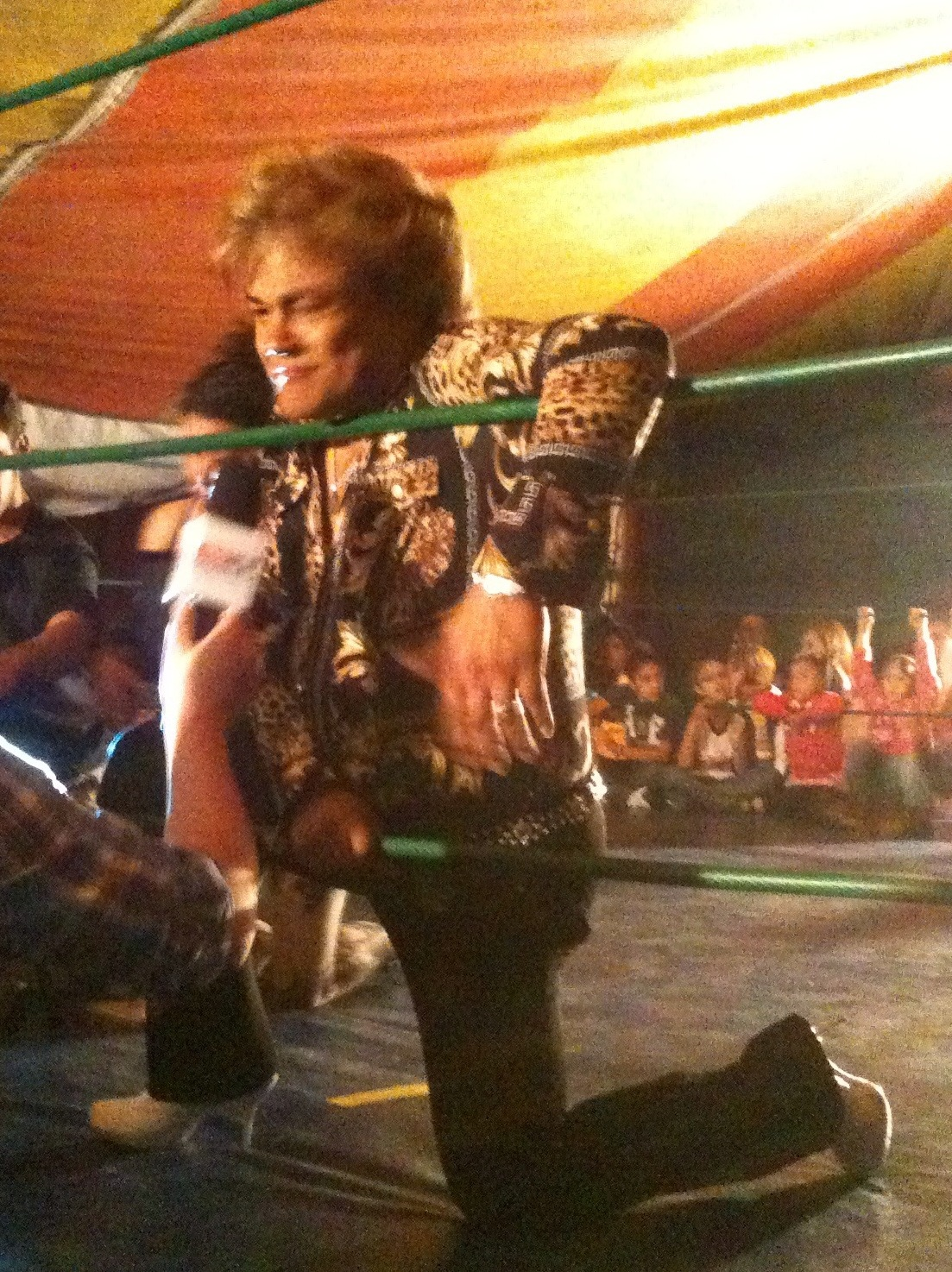 Cassandro in September 2012. Cropped from original.